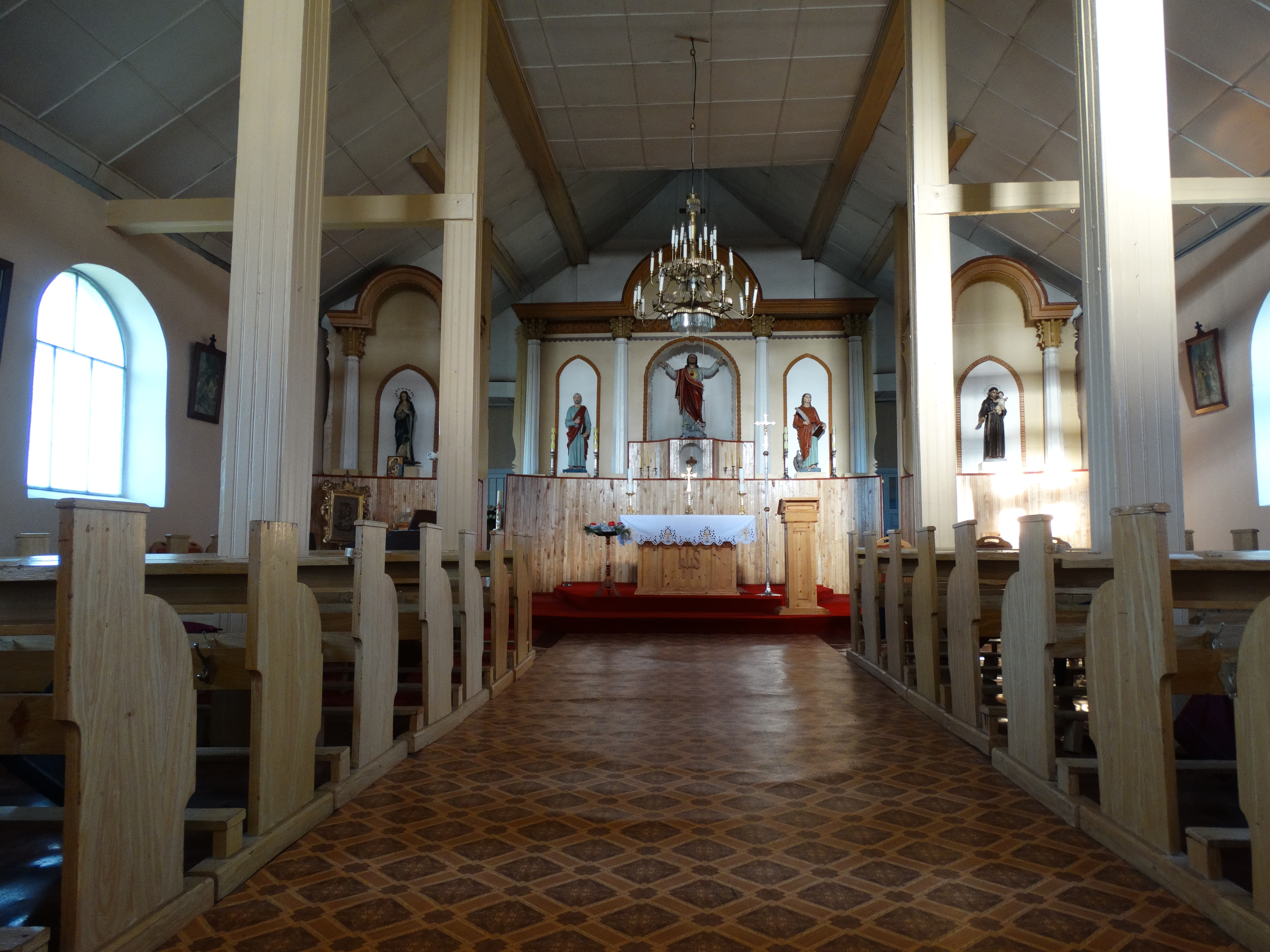 Church of the Sacred Heart of Jesus in Raudonė, Jurbarkas district, Lithuania